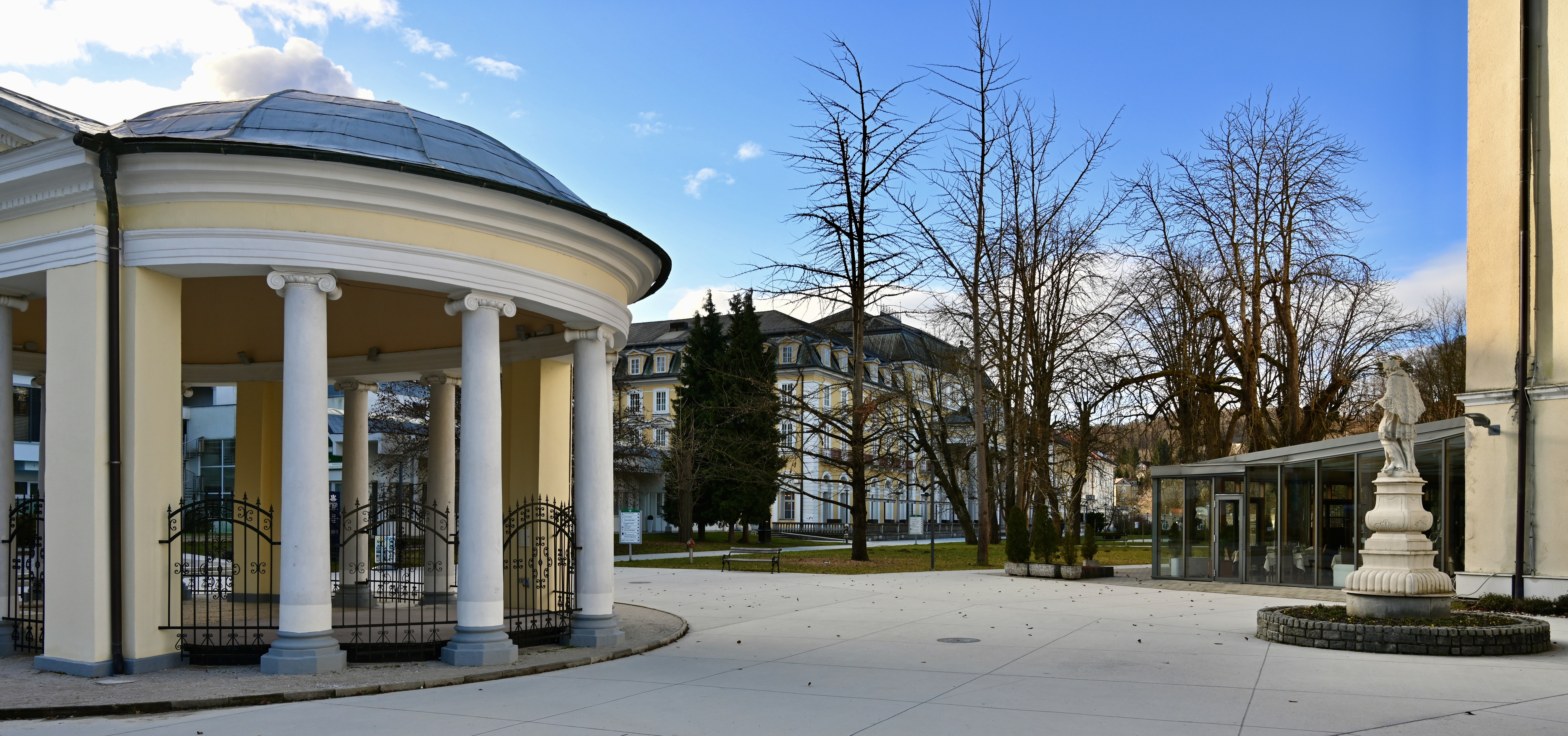 Tempel Pavilion in the spa park of Rogaška Slatina